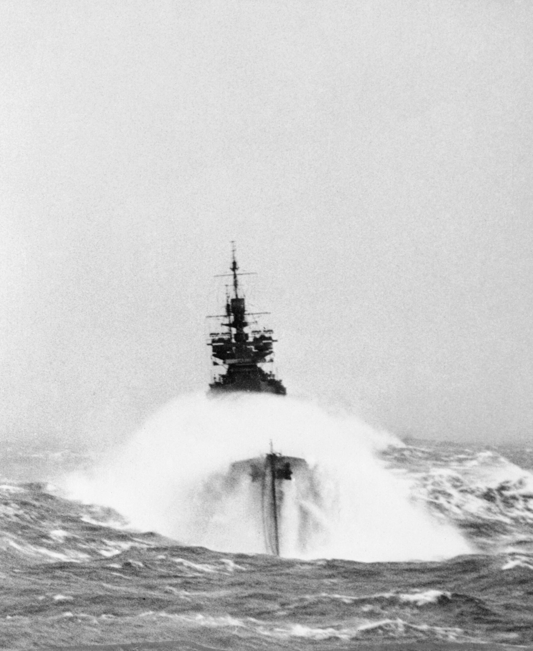 The battleship HMS DUKE OF YORK in heavy seas on a convoy escort operation to Russia, March 1942. HMS DUKE OF YORK in heavy seas whilst helping to guard convoy lanes to Russia.